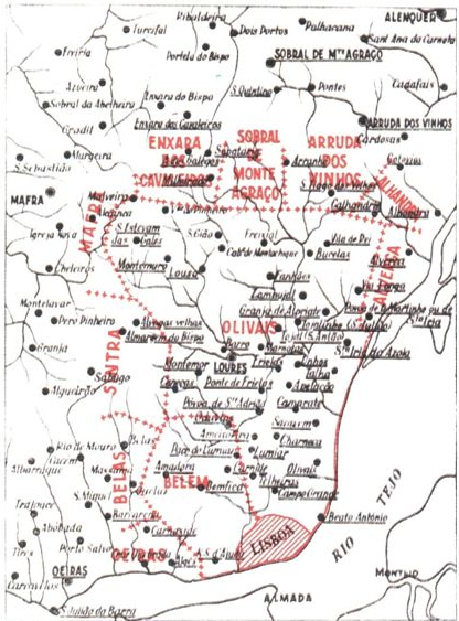 Map of the Territorial Limits of the Municipality of Olivais in 1852 (Portugal).